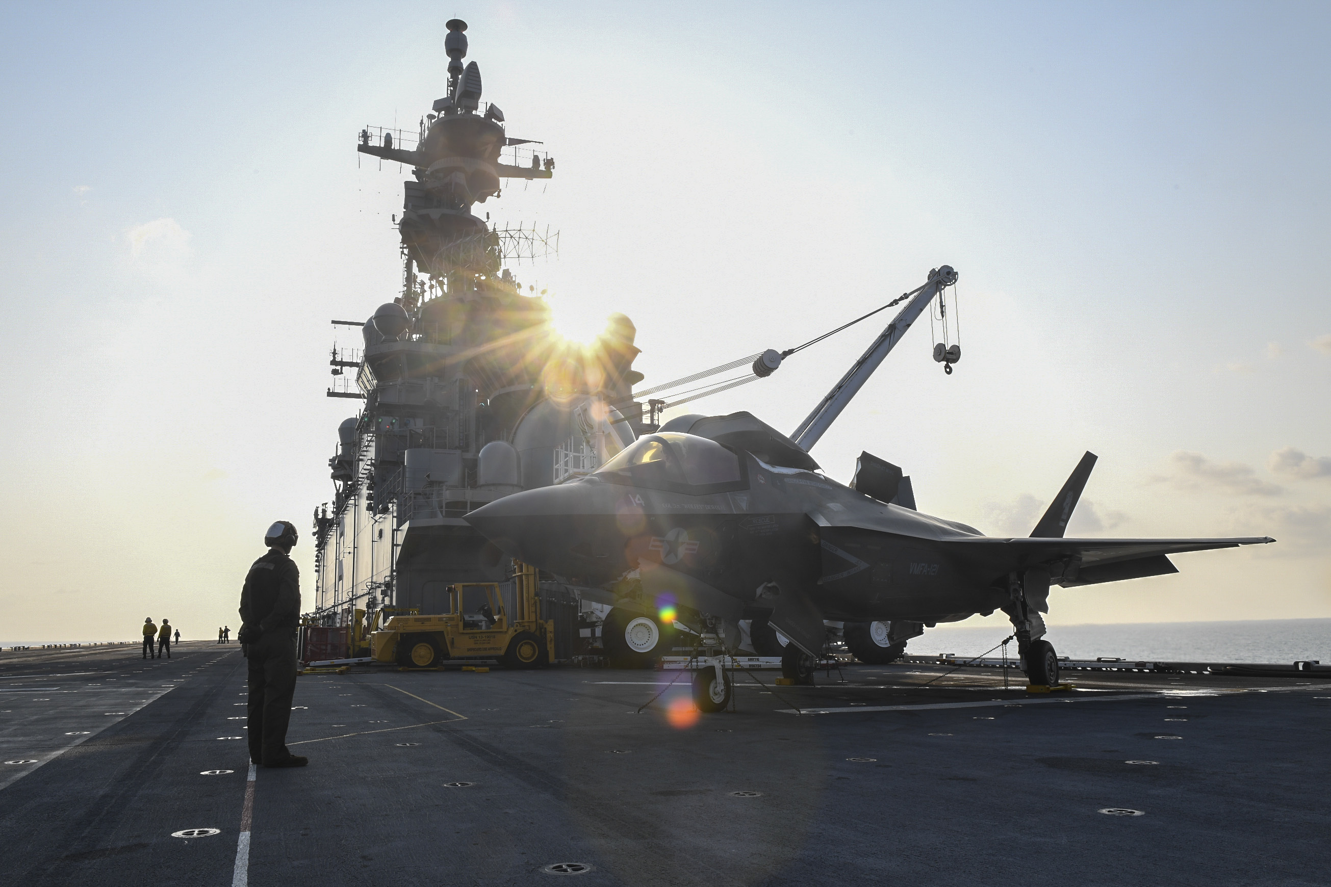 200229-N-ZS023-1007 GULF OF THAILAND (Feb. 29, 2020) An F-35B Lightning II fighter aircraft assigned to the 31st Marine Expeditionary Unit (MEU), Marine Medium Tiltrotor Squadron (VMM) 265 (Reinforced) is chained down on the flight deck of amphibious assault ship USS America (LHA 6) in support of Exercise Cobra Gold 2020, Feb. 29, 2020. America Expeditionary Strike Group-31st Marine Expeditionary Unit is participating in Cobra Gold 20, the largest theater security cooperation exercise in the Indo-Pacific Region and an integral part of the U.S. commitment to strengthen engagement in the region. (U.S. Navy photo by Mass Communication Specialist 3rd Class Vance Hand/Released)